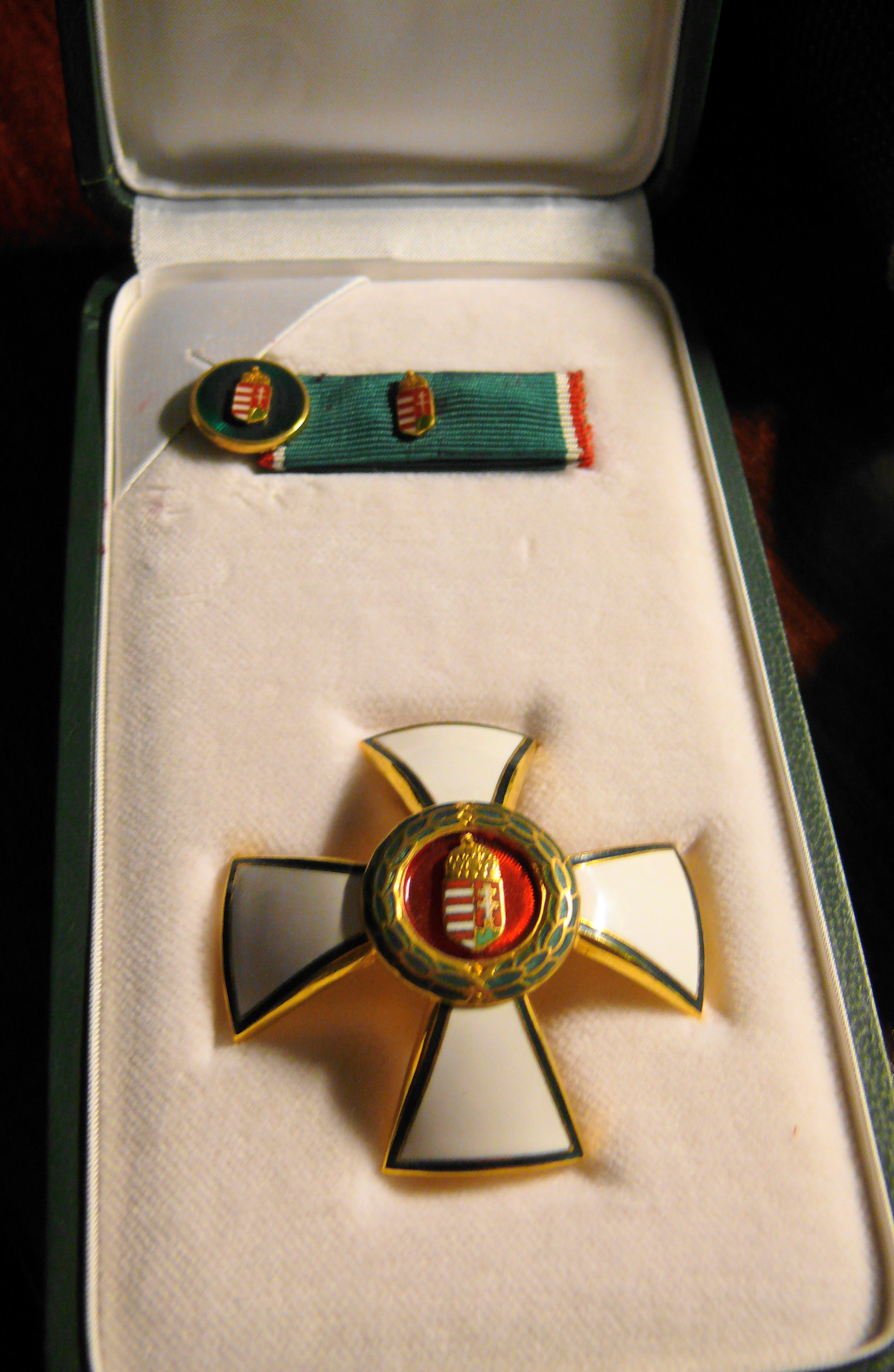 Hungarian Order of Merit Officer's Cross (civil)